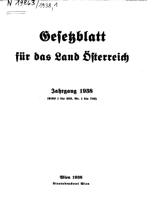 The first page of the "Gesetzblatt für das Land Österreich" (Law Gazette for the Land Austria) from 1938